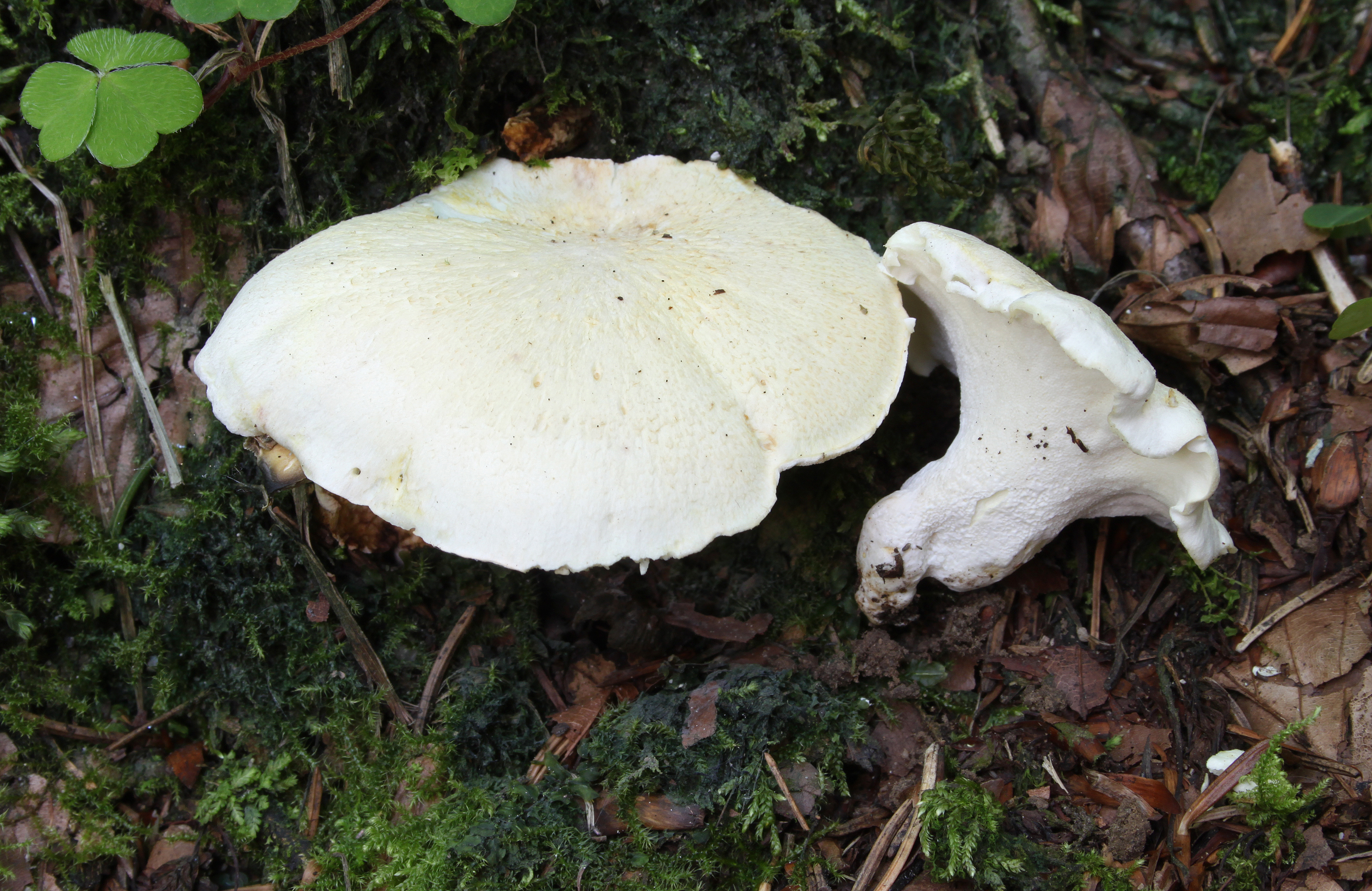 Albatrellus ovinus, Family: Albatrellaceae, Location: Germany, Oberstdorf